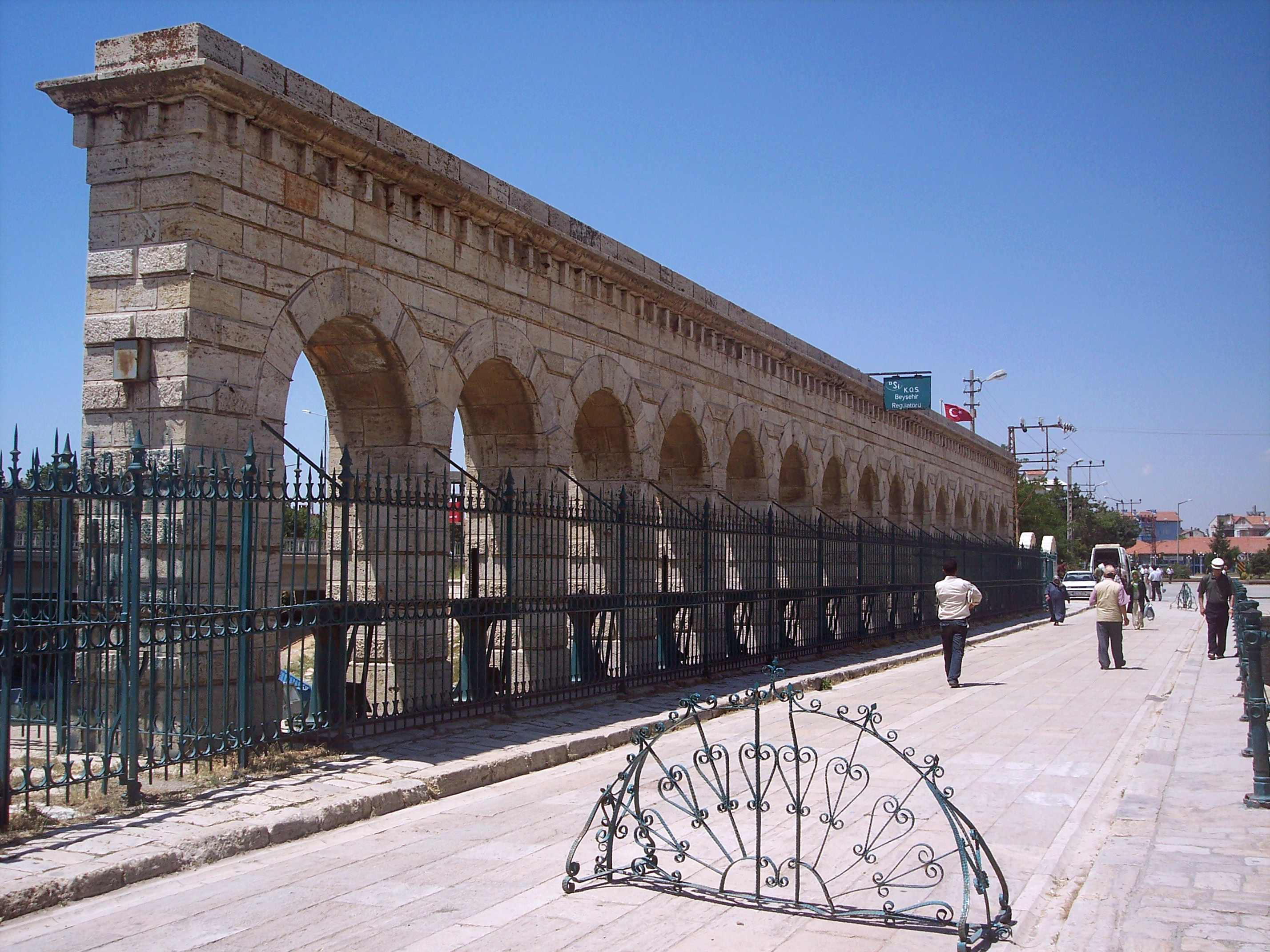 Taş Köprü ("Stone Bridge") a historical regulator dam in Beyşehir/Konya of the modern-day Turkey. It was built in the first quarter of 20th century as the first irrigation project of Ottoman Empire.